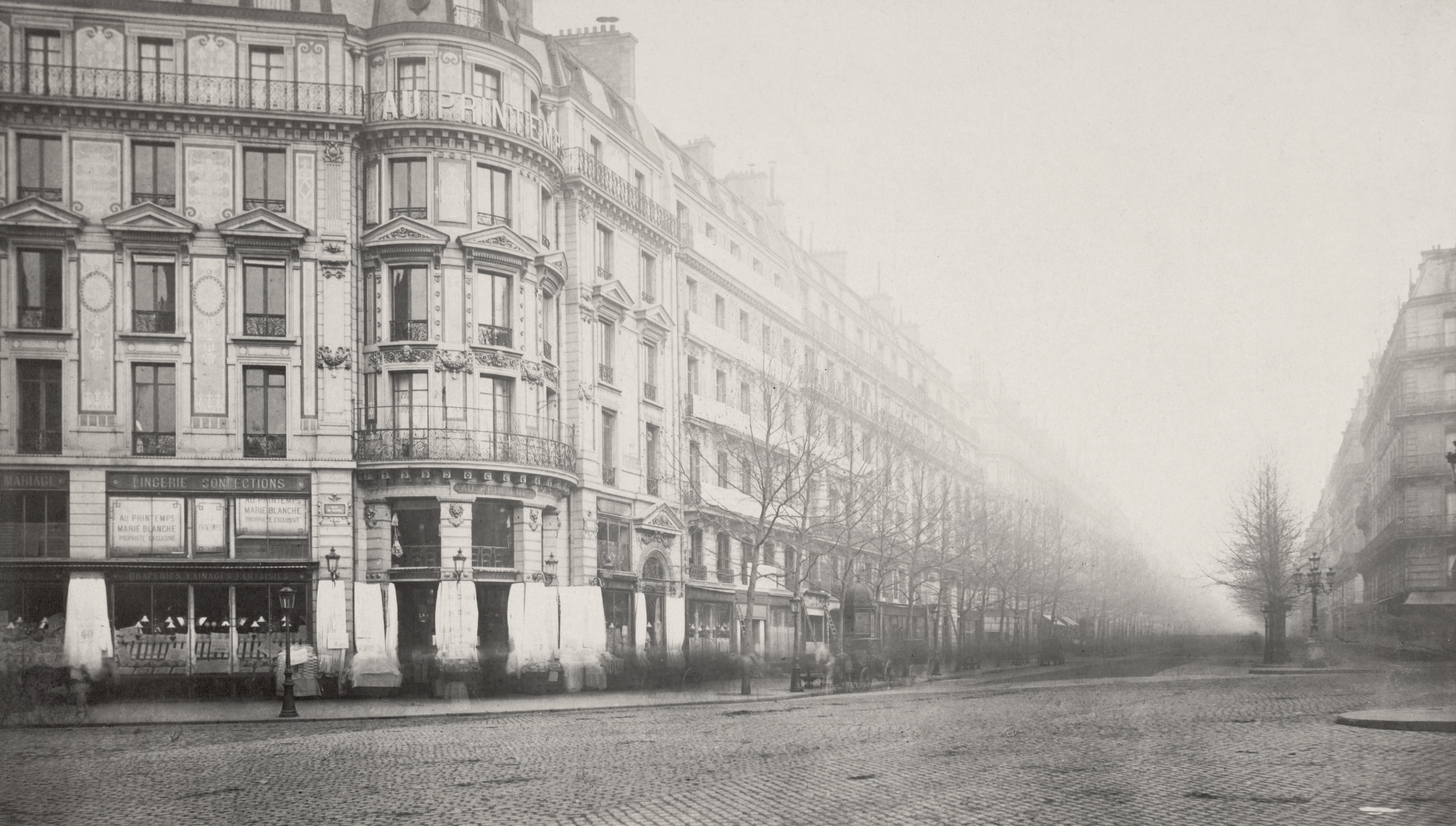 Looking from intersection along tree lined cobbled street, corner store on left "Au Printemps".